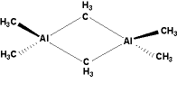 trimethylaluminium as its bridged dimer